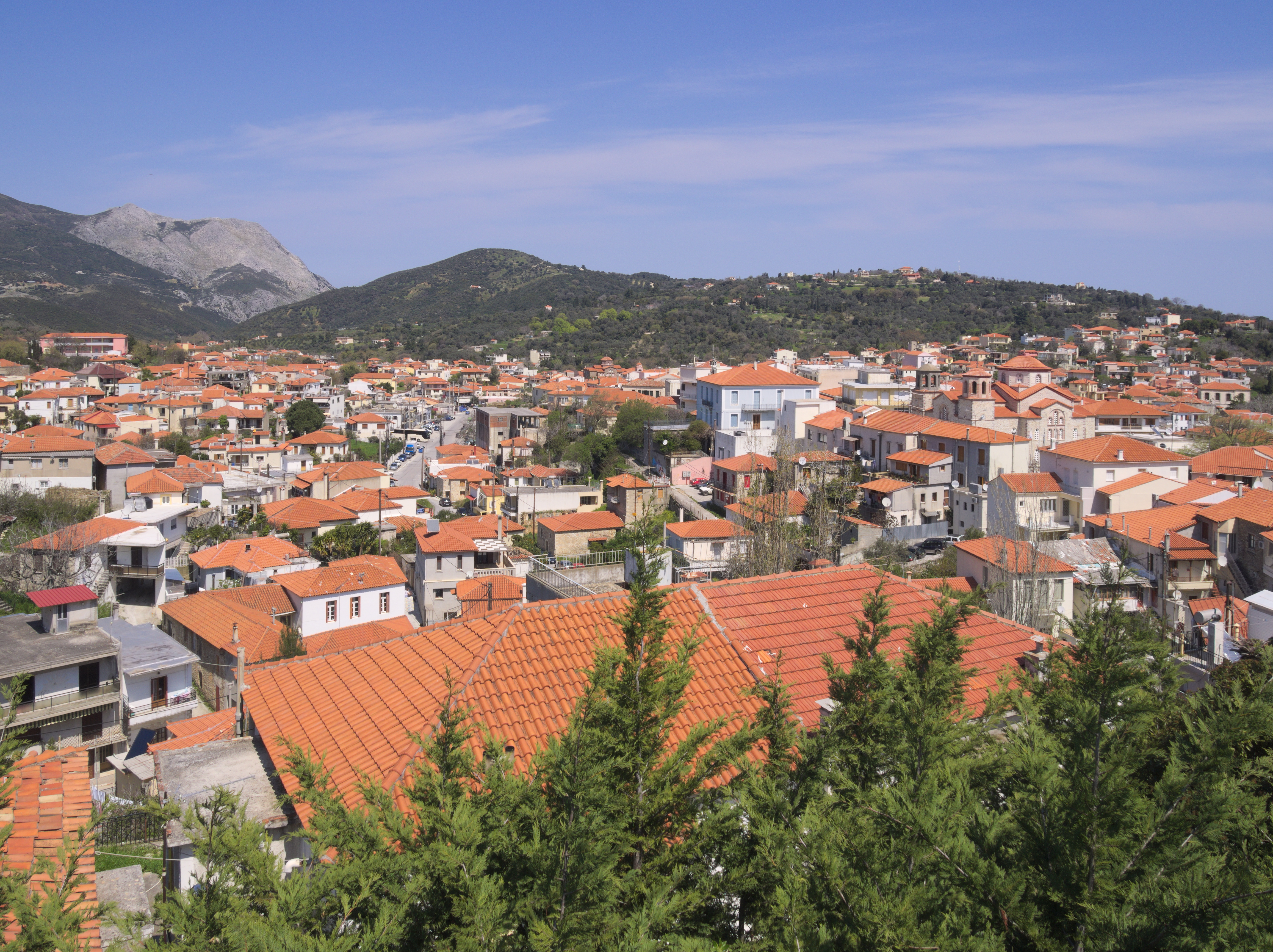 Panoramic view of Kymi, Euboea, from south.